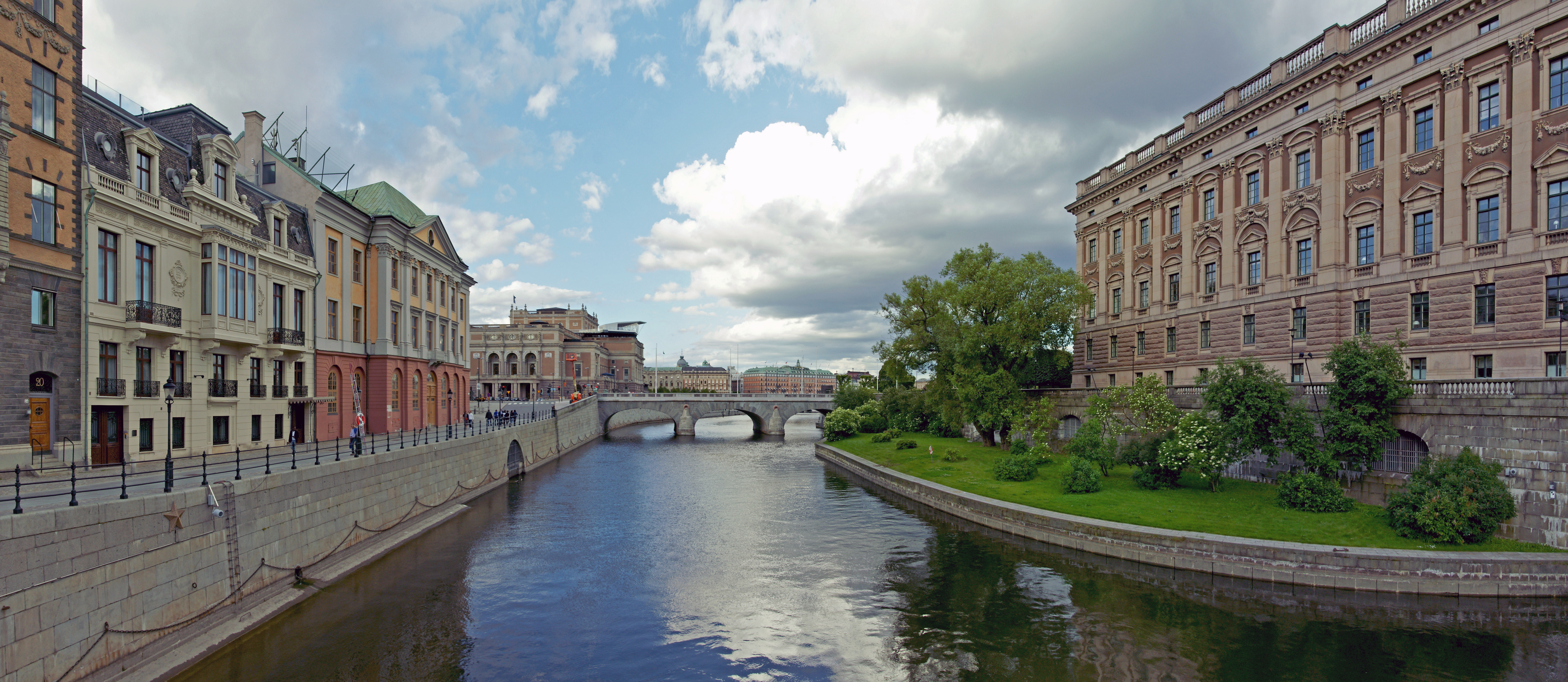 Panoramic view from Riksgatan, Stockholm.